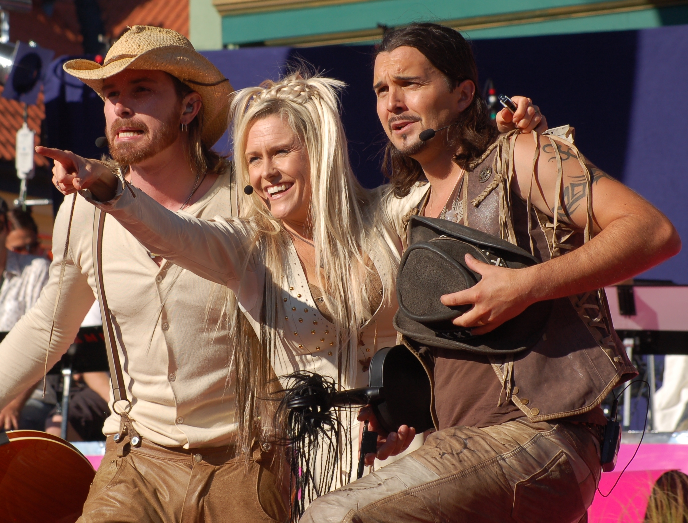 Rednex in Stockholm, Gröna Lund